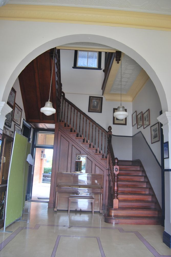 Technical College Building, entry foyer, from E (2015)